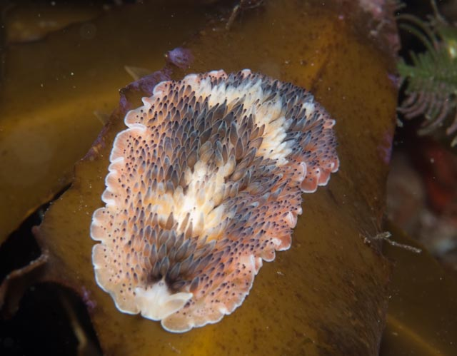 A photograph of a carpet flatworm, Thysanozoon brocchii, taken in 10m of water in False Bay Cape Town using a housed Fuji camera.